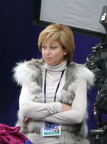 Elena Vodorezova (Buianova) at the 2010 Cup of Russia.